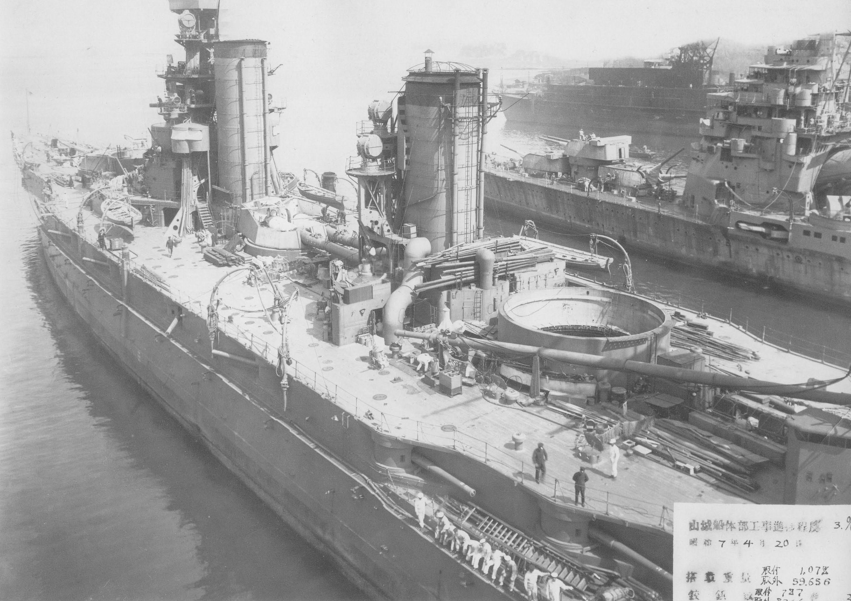 Imperial Japanese Navy battleship Yamashiro undergoes reconstruction at Yokosuka, Japan.